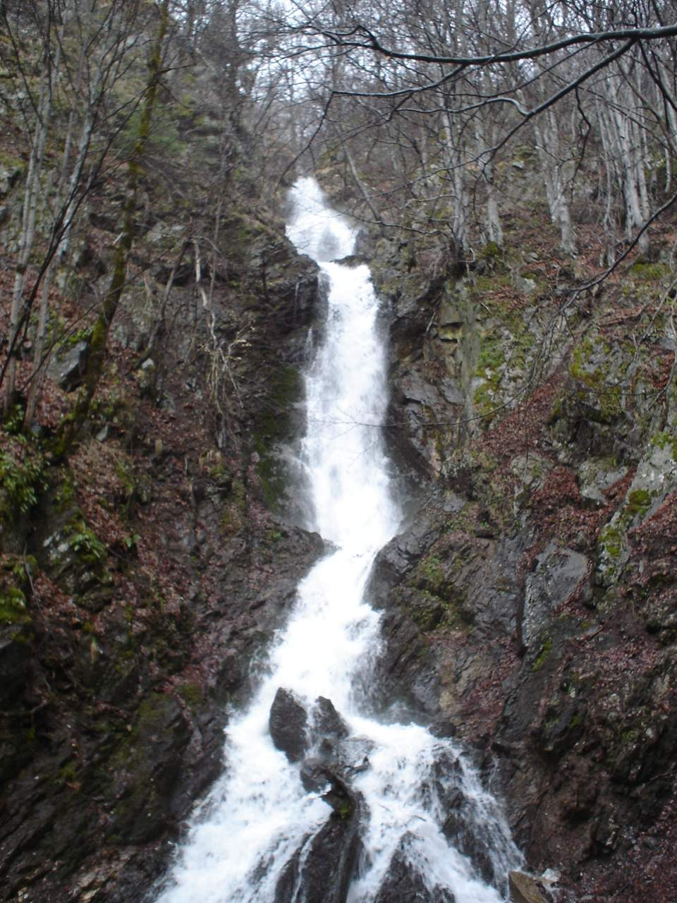 Middle part of great waterfall on Kopaonik,Serbia,SCG.